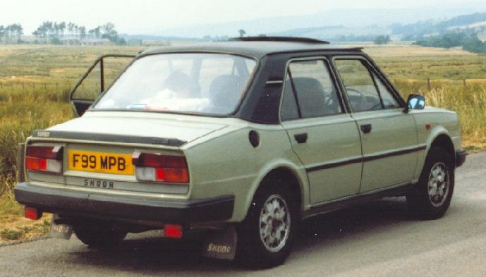 Škoda 130 Estelle, photographed in Northumberland, England